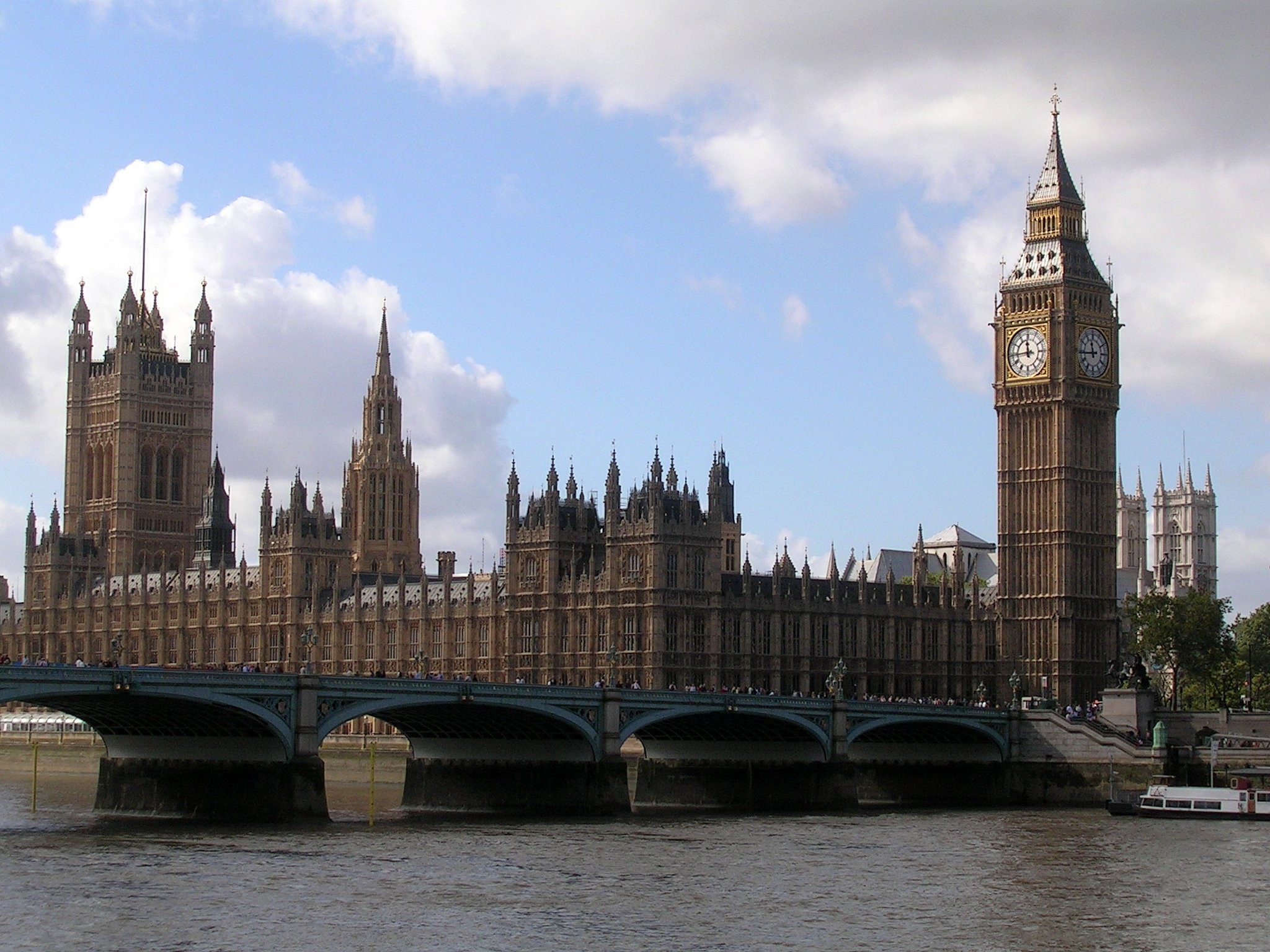 Westminster Bridge, Parliament House and the Big Ben